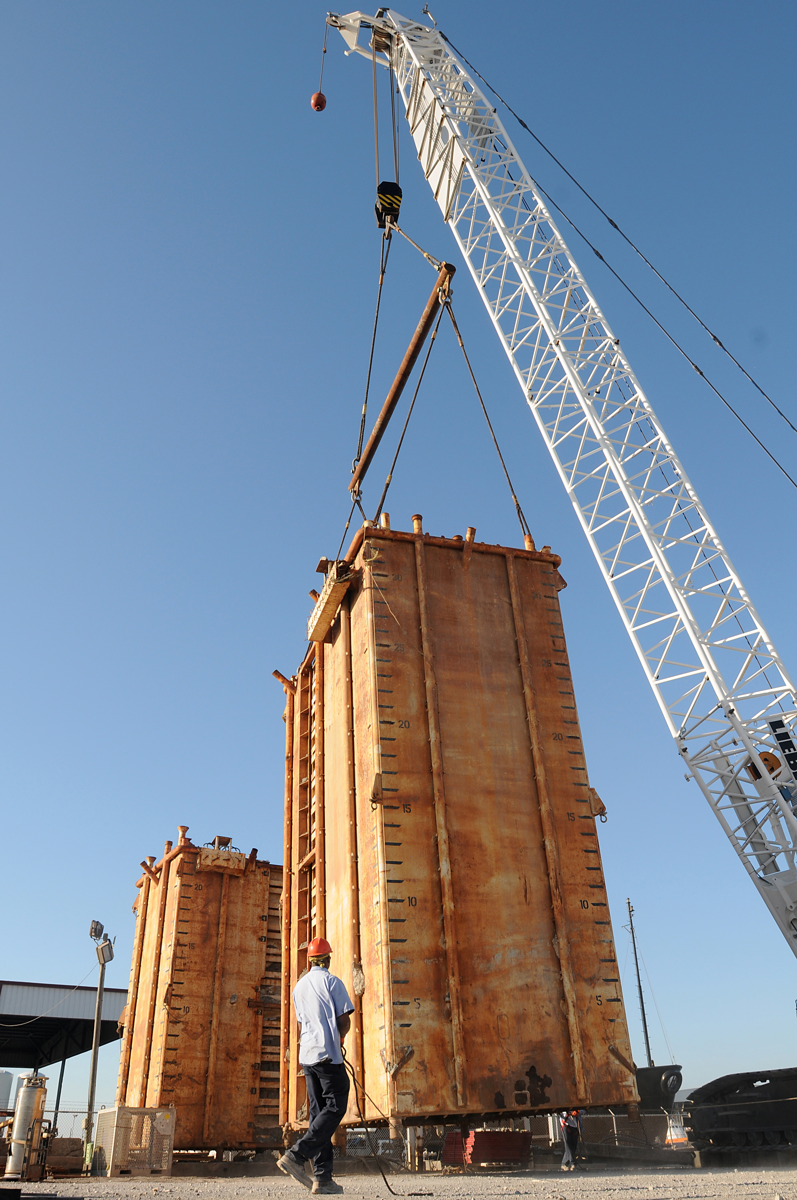 PORT FOURCHON, La. - The base of a pollution containment chamber is moved to a construction area at Wild Well Control, Inc. in Port Fourchon, La., April 26, 2010. The chamber will be one of the largest ever built and will be used in an attempt to contain an oil leak related to the mobile offshore drilling unit Deepwater Horizon explosion. U.S. Coast Guard photo by Petty Officer Third Class Patrick Kelley.